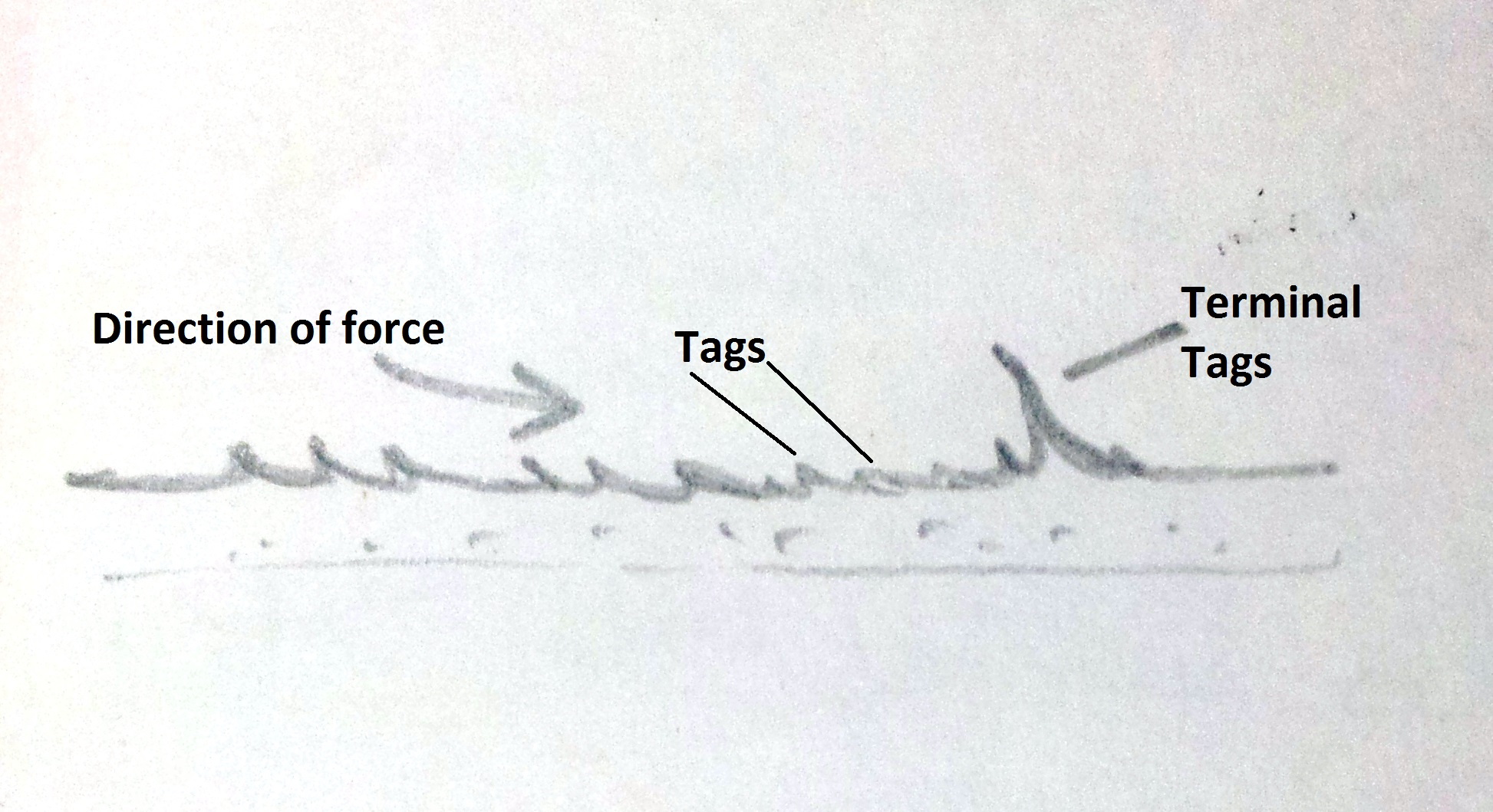 Epithelial Tags